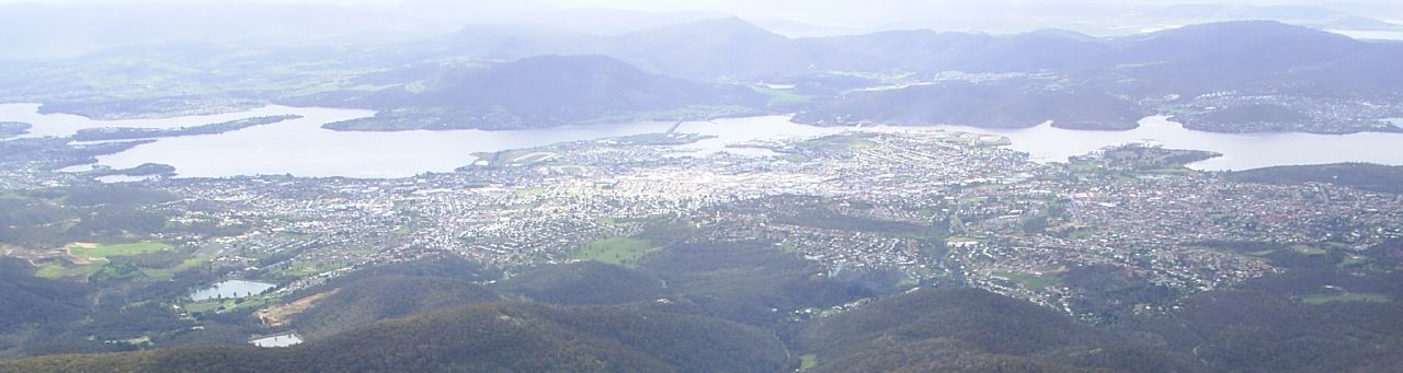 M4034S-4208 See where this photo was taken at Yuan.CC Maps .